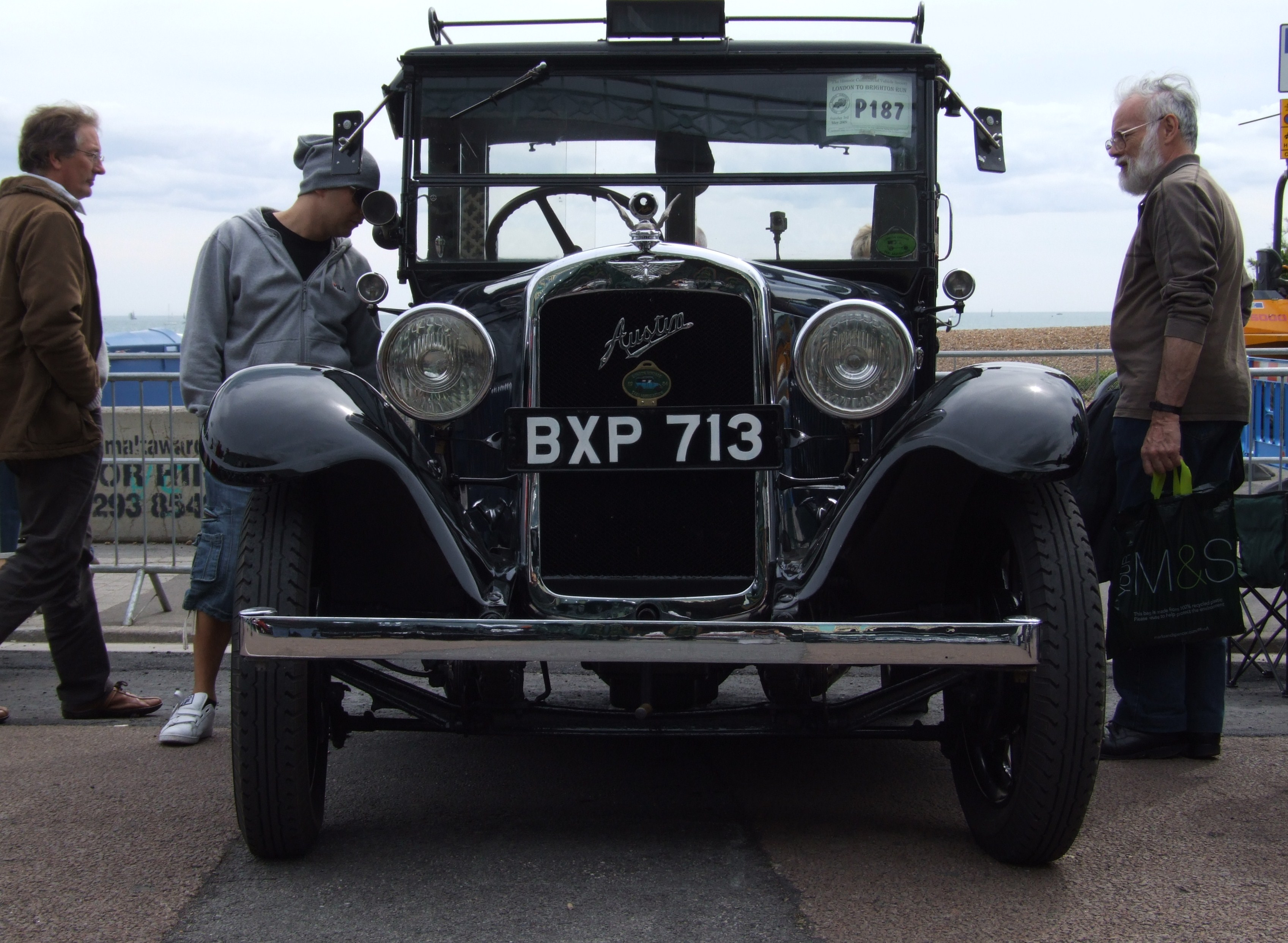 Austin 12/4 taxicab (DVLA) first registered 11 April 1935, 1479 cc Shame they do not look like this anymore. I wonder what the driver would have thought of the young man in the silly hat in 1935